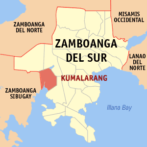 Map of Zamboanga del Sur showing the location of Kumalarang